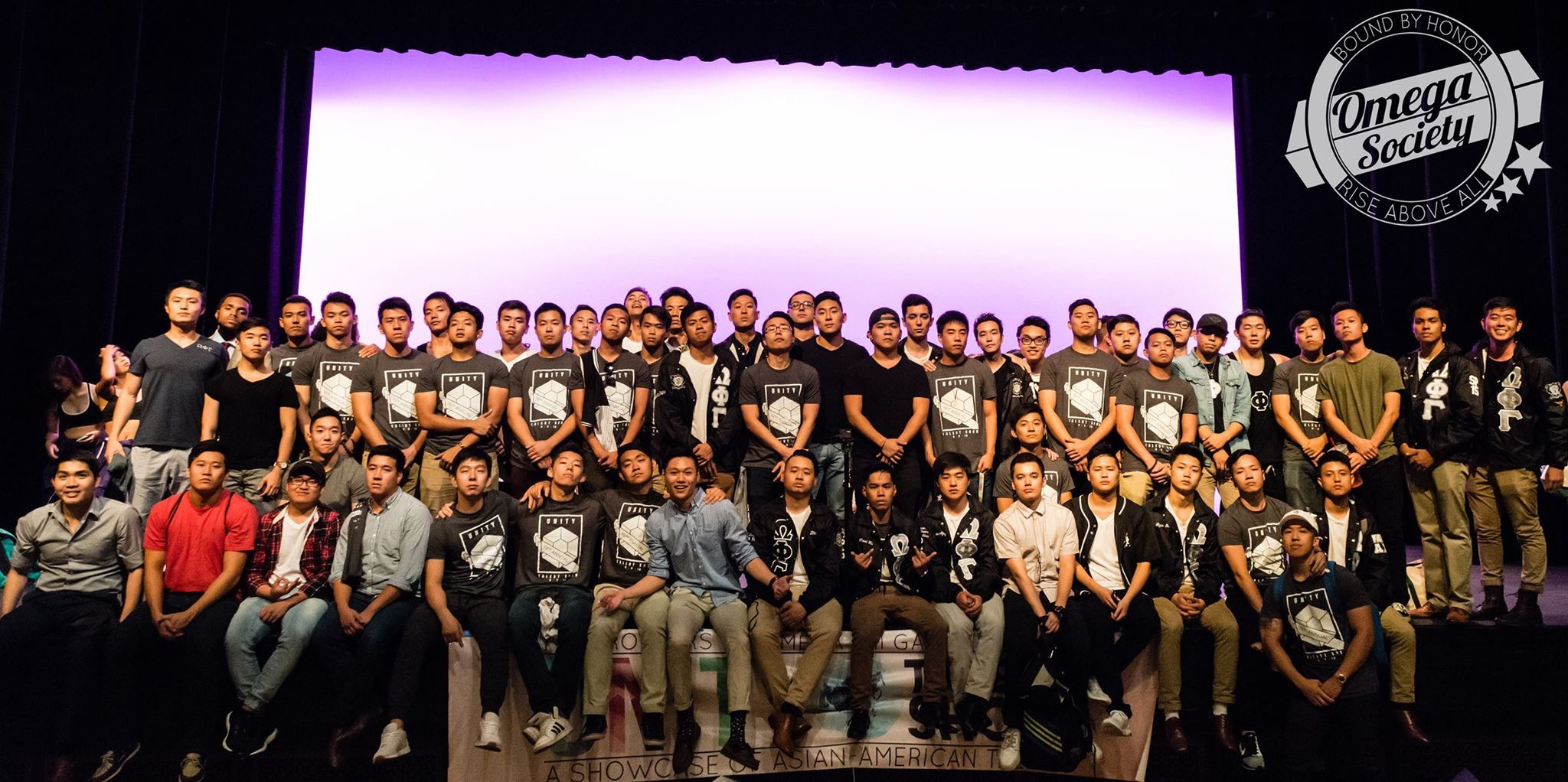 active housr